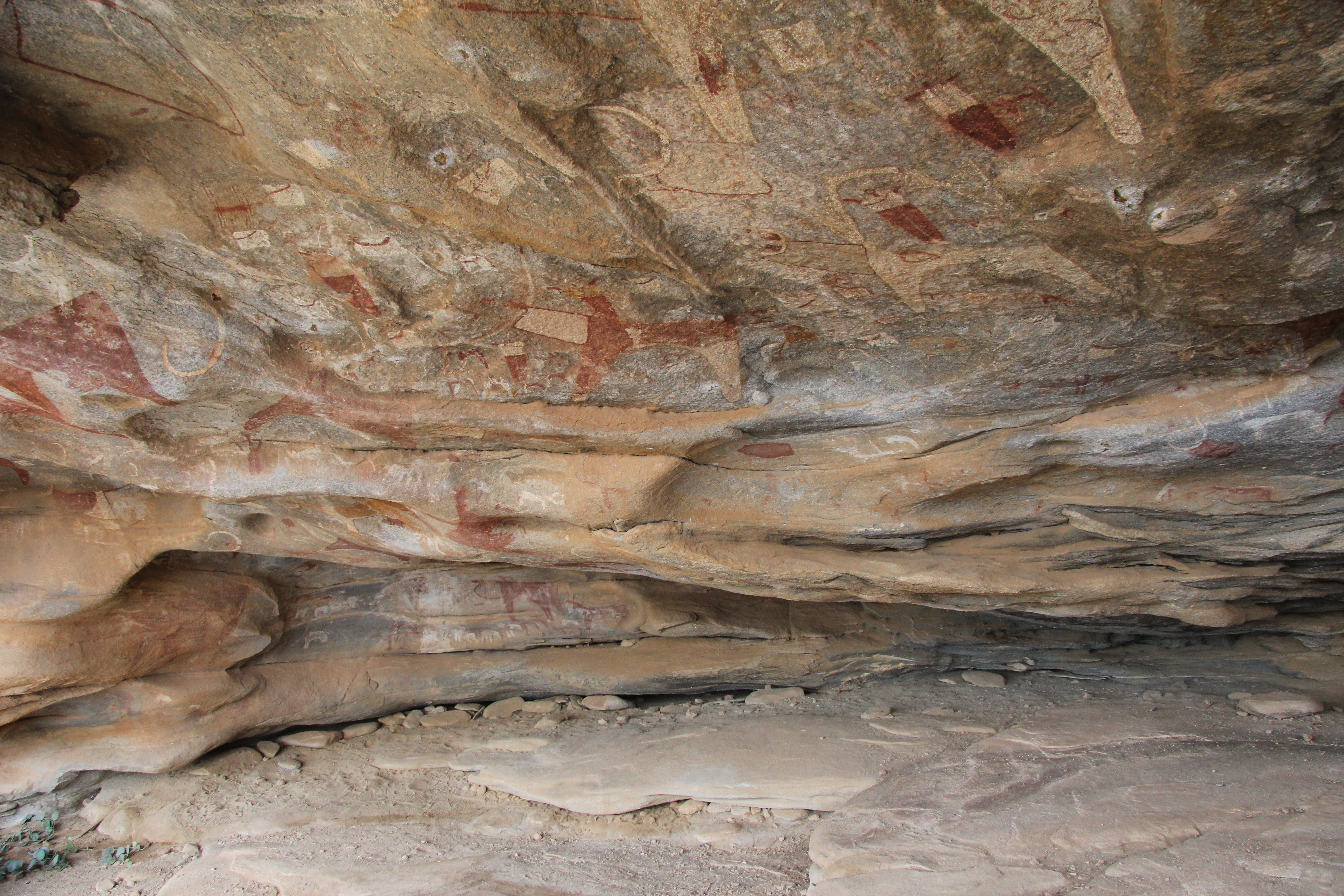 The Laas Gaal rock paintings.